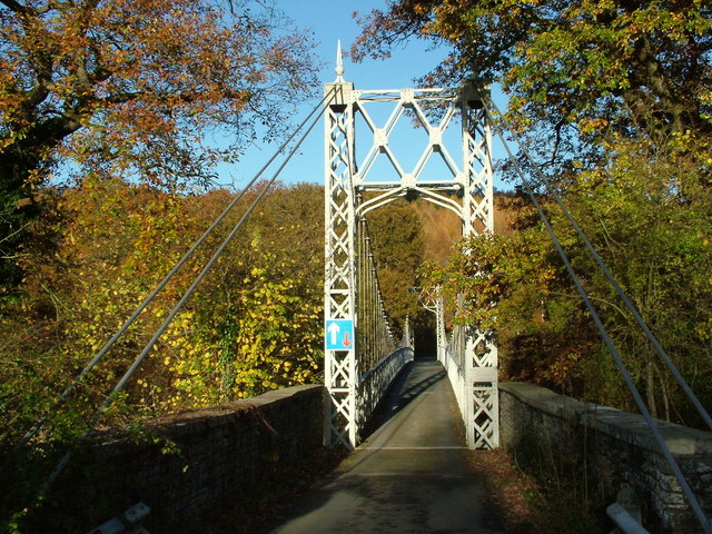 Lady Milford's Bridge View of the bridge at Llanstephan from the western end.